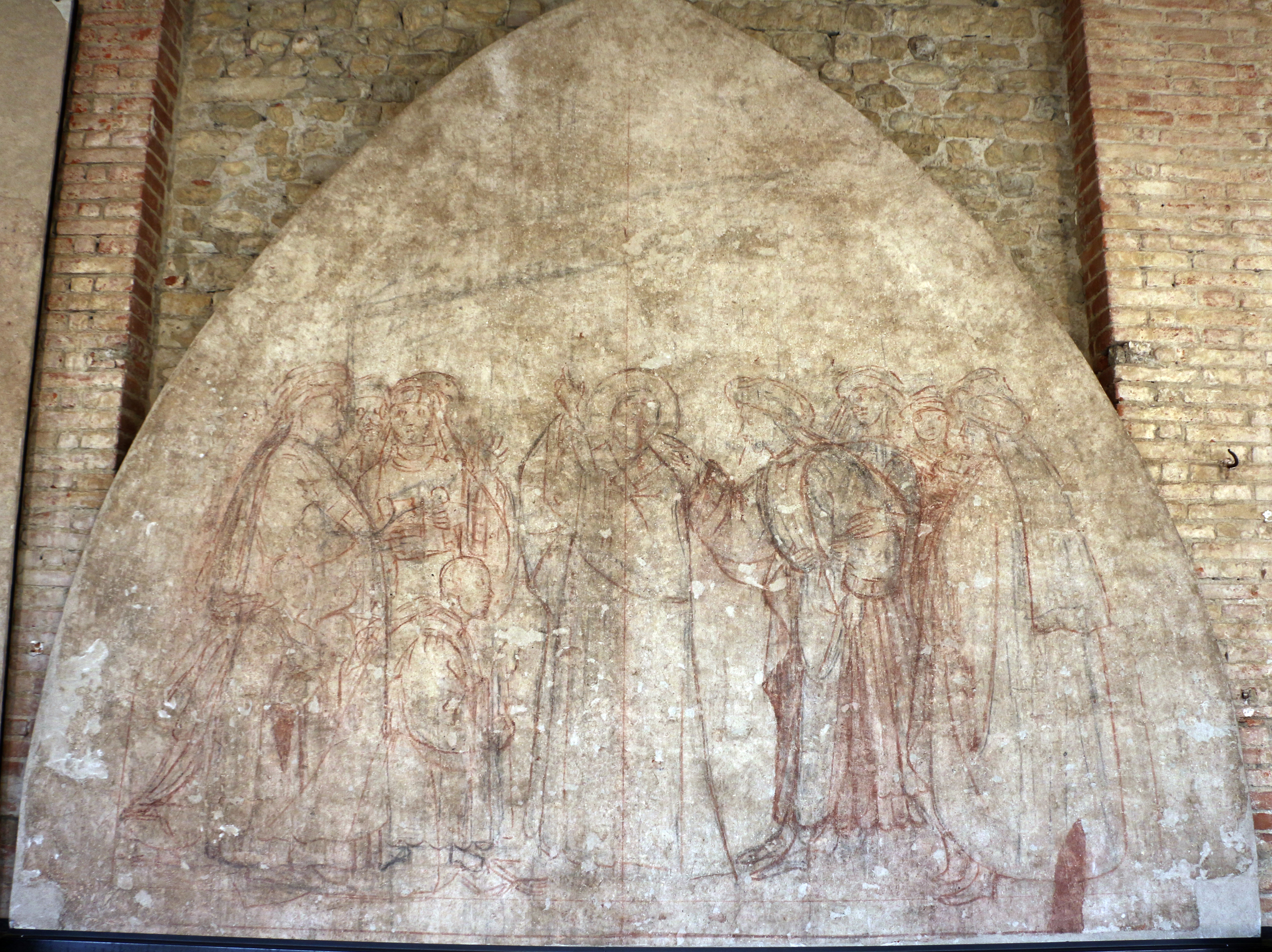 Duomo (Prato) - Cappella dell'Assunta - Sinopias by Paolo Uccello